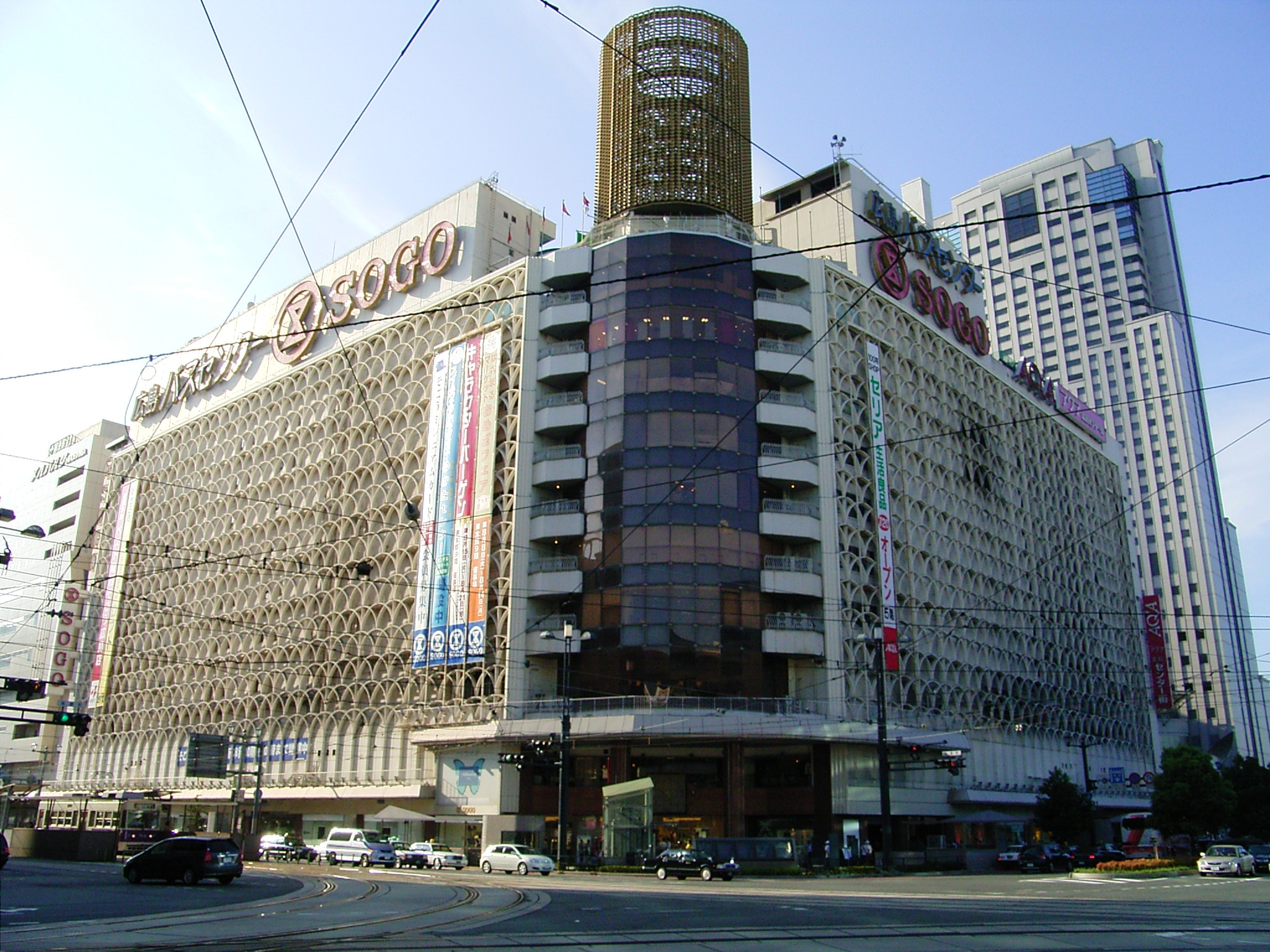 Hiroshima Bus Center, Hiroshima SOGO and AQ'A Hiroshima Center City Ricoh Caplio RX